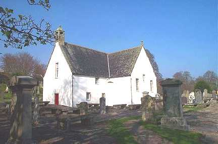 Golspie - St Andrew's Church of Scotland.